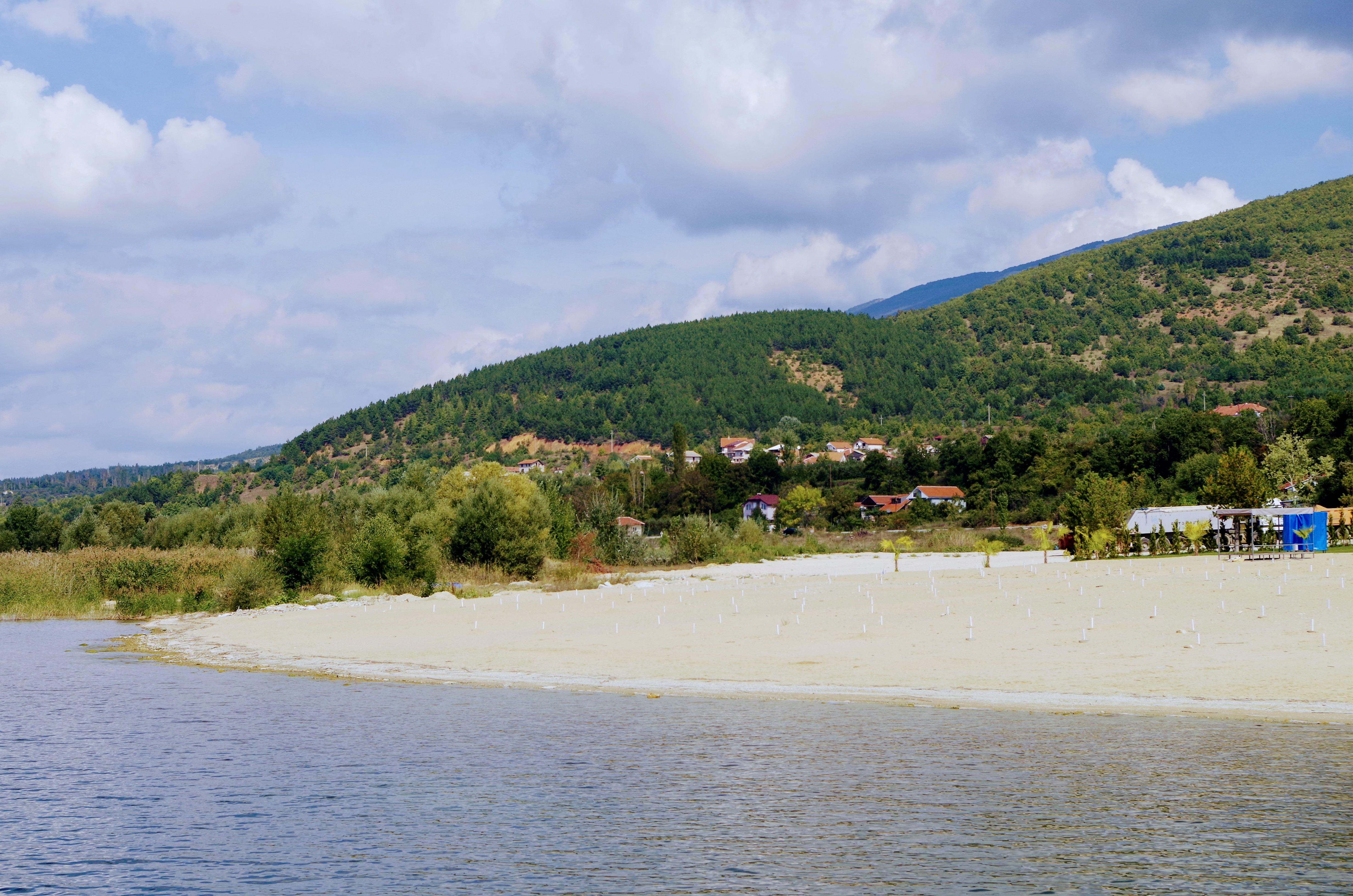 View of the beach in Slivnica, in background village Pretor